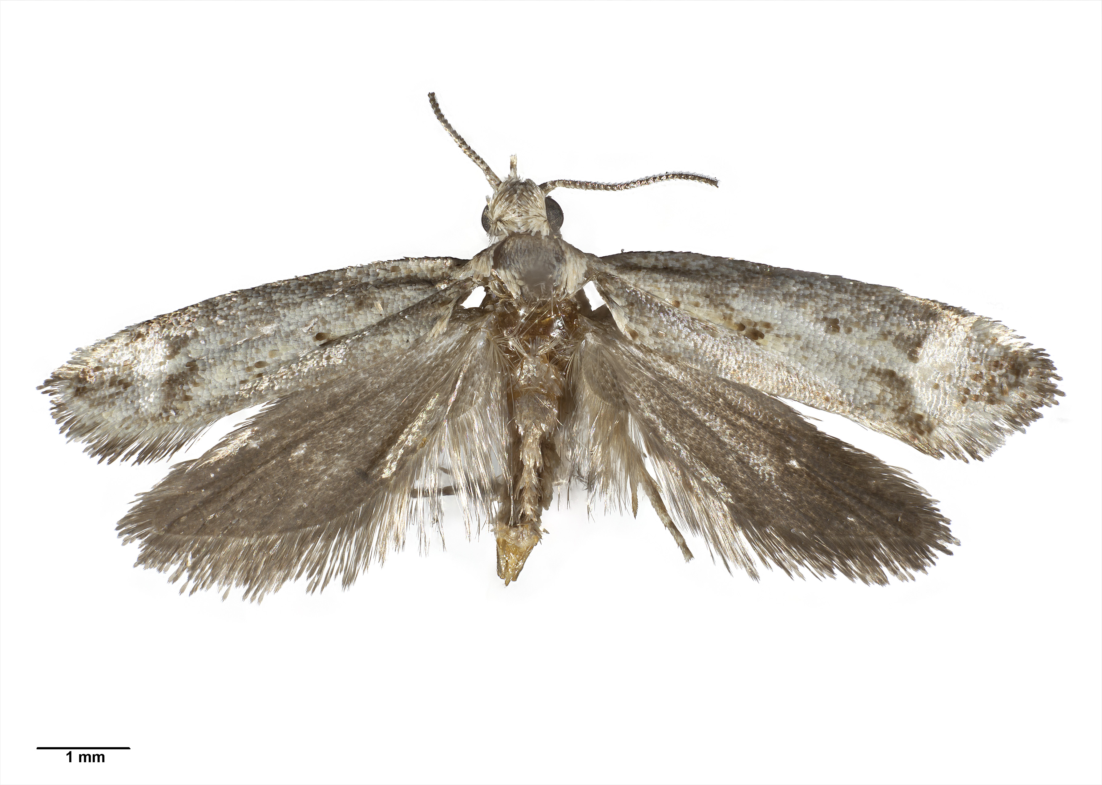 Male holotype specimen of Lysiphragma argentaria AMNZ21777 held at the Auckland War Memorial Museum.